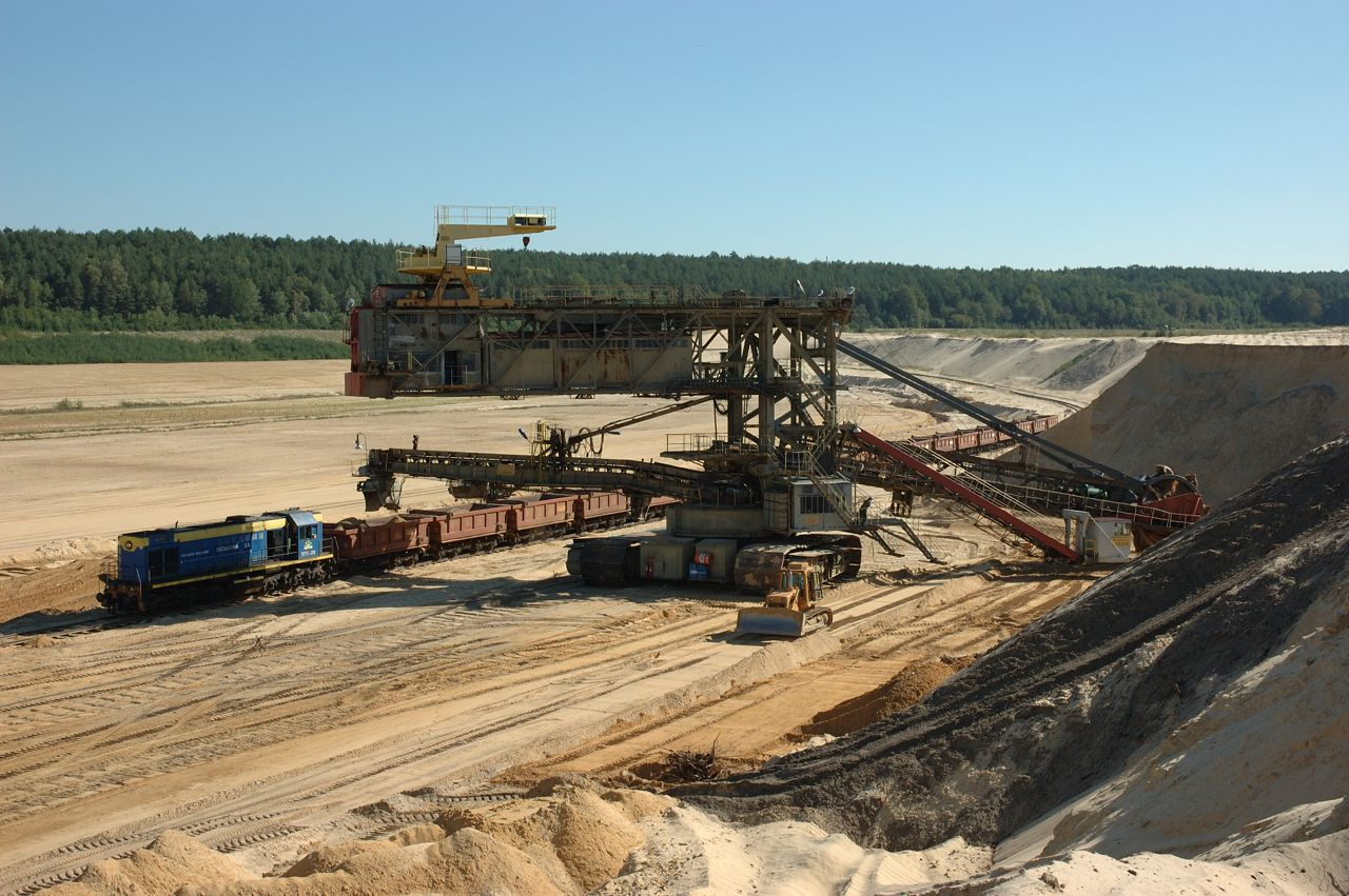 Sand field Ciężkowice (PCC Rail company), Poland.